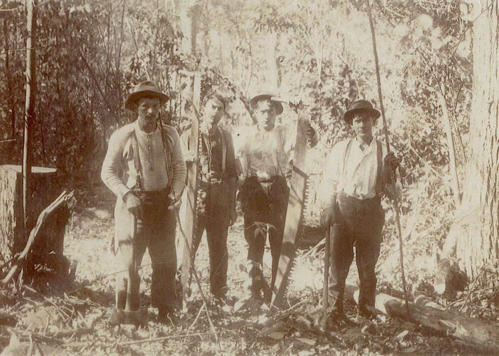 Old photograph of lumberjacks.